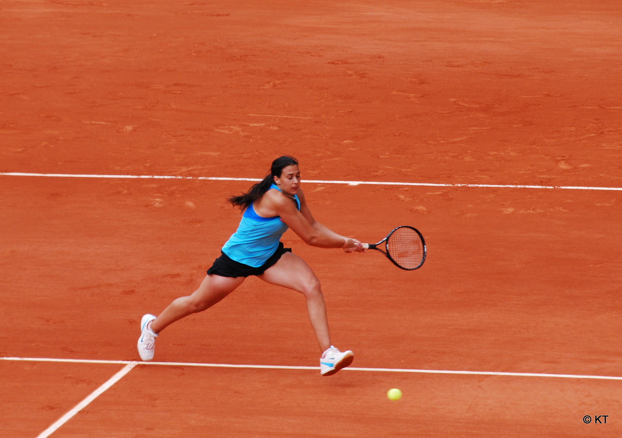 Marion Bartoli during her third round match with Julia Görges. Roland Garros 2011.